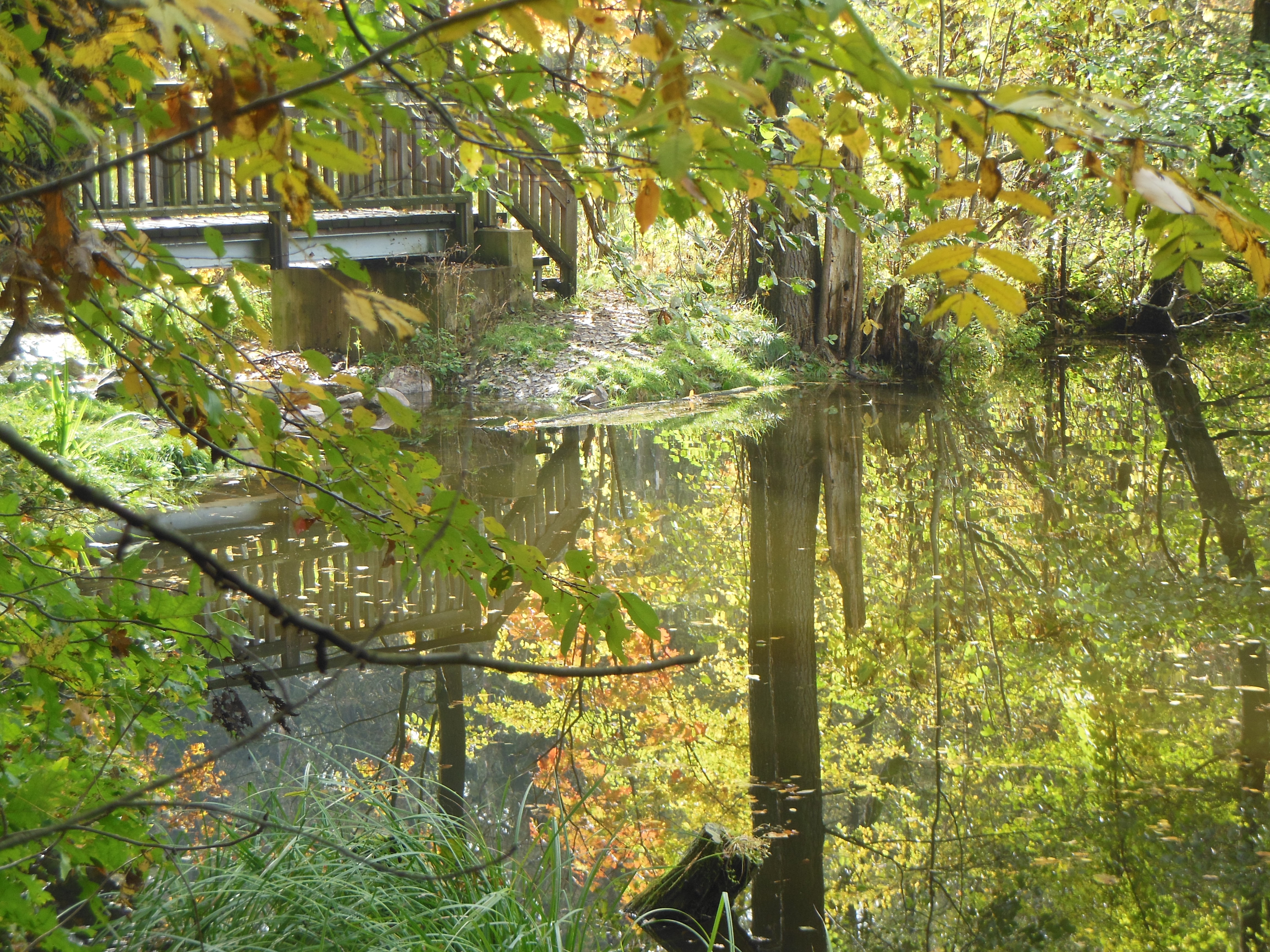 European reserve "Glasowbachniederung" (brook lowlands of creek of Glasow) at Lake Selchow nearby Schönefeld Airport